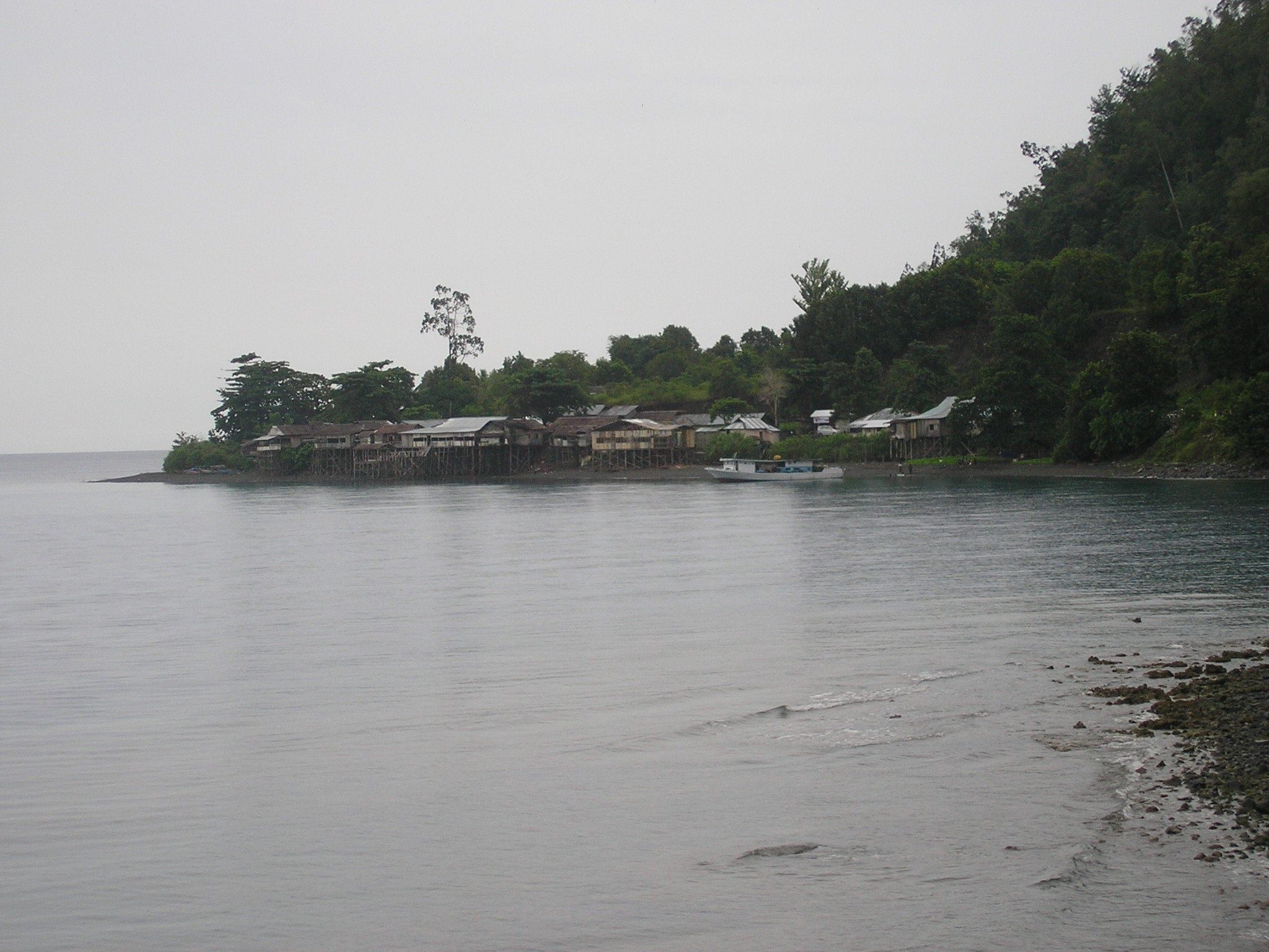 Fishermen's village in Tojo area, Tojo Una-Una Regency, Central Sulawesi Indonesia